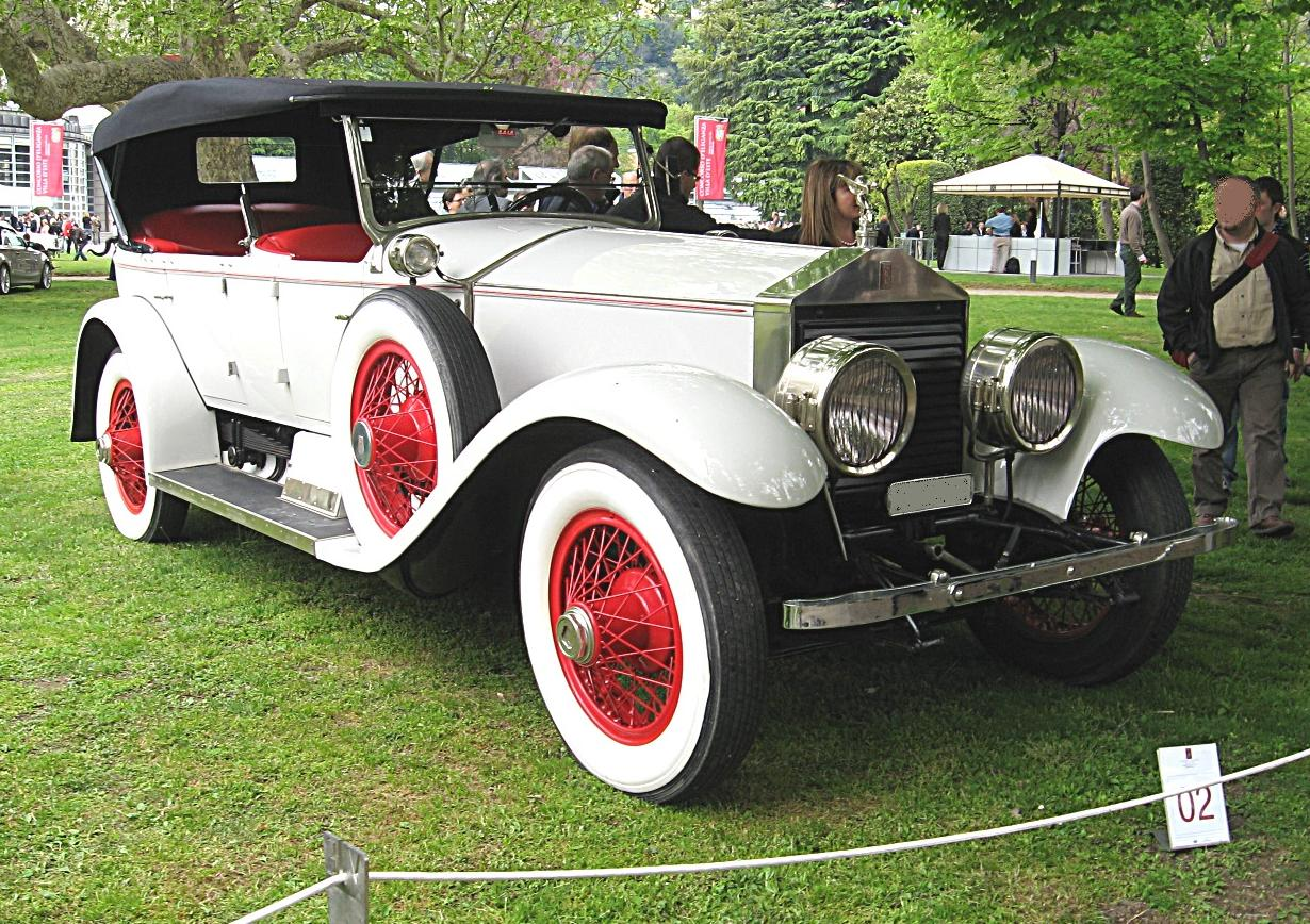 Subject:1925 Rolls-Royce Silver Ghost Torpedo "Pall Mall Tourer", coachbuilt by Brewster & Co. Author:Luc106 Date:April 27th, 2008 Event:Concorso d’Eleganza”Villa d’Este” 2008 Place/Country: Cernobbio (CO), Italy I release all rights in the public domain.